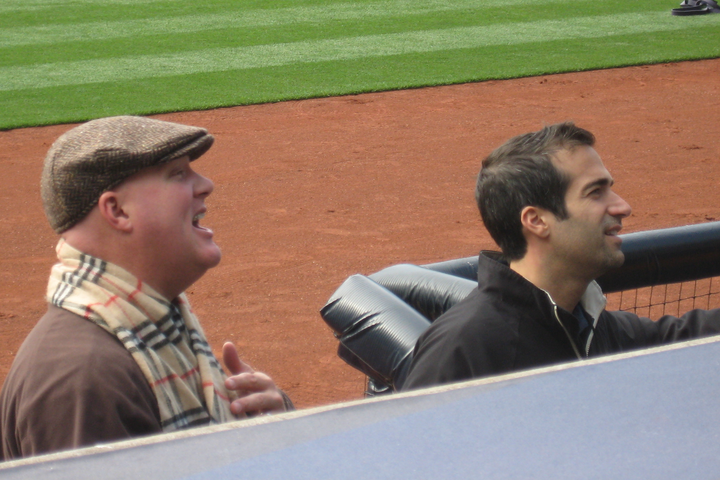 San Diego Padres broadcasters Mark Grant (left) and Matt Vasgersian in the dugout at Petco Field before a 2008 Padres game